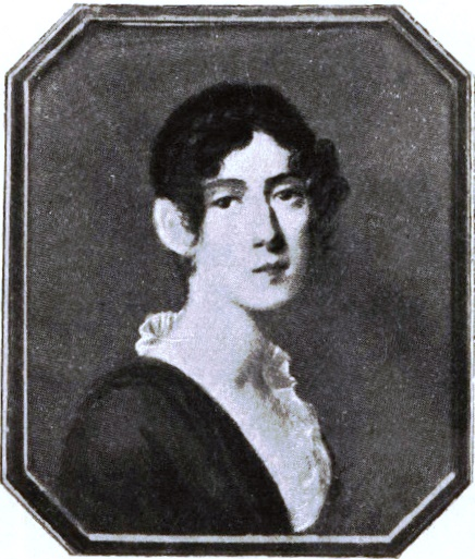 Sprengtporten Varvara Nikolaevna (nee Samytskaya) cropped